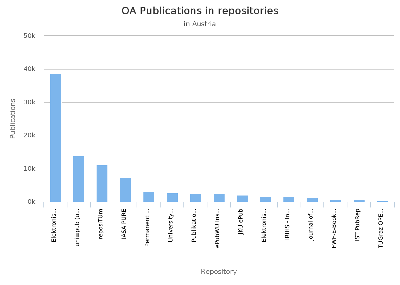 Bar graph describing open access to scholarly communication in Austria